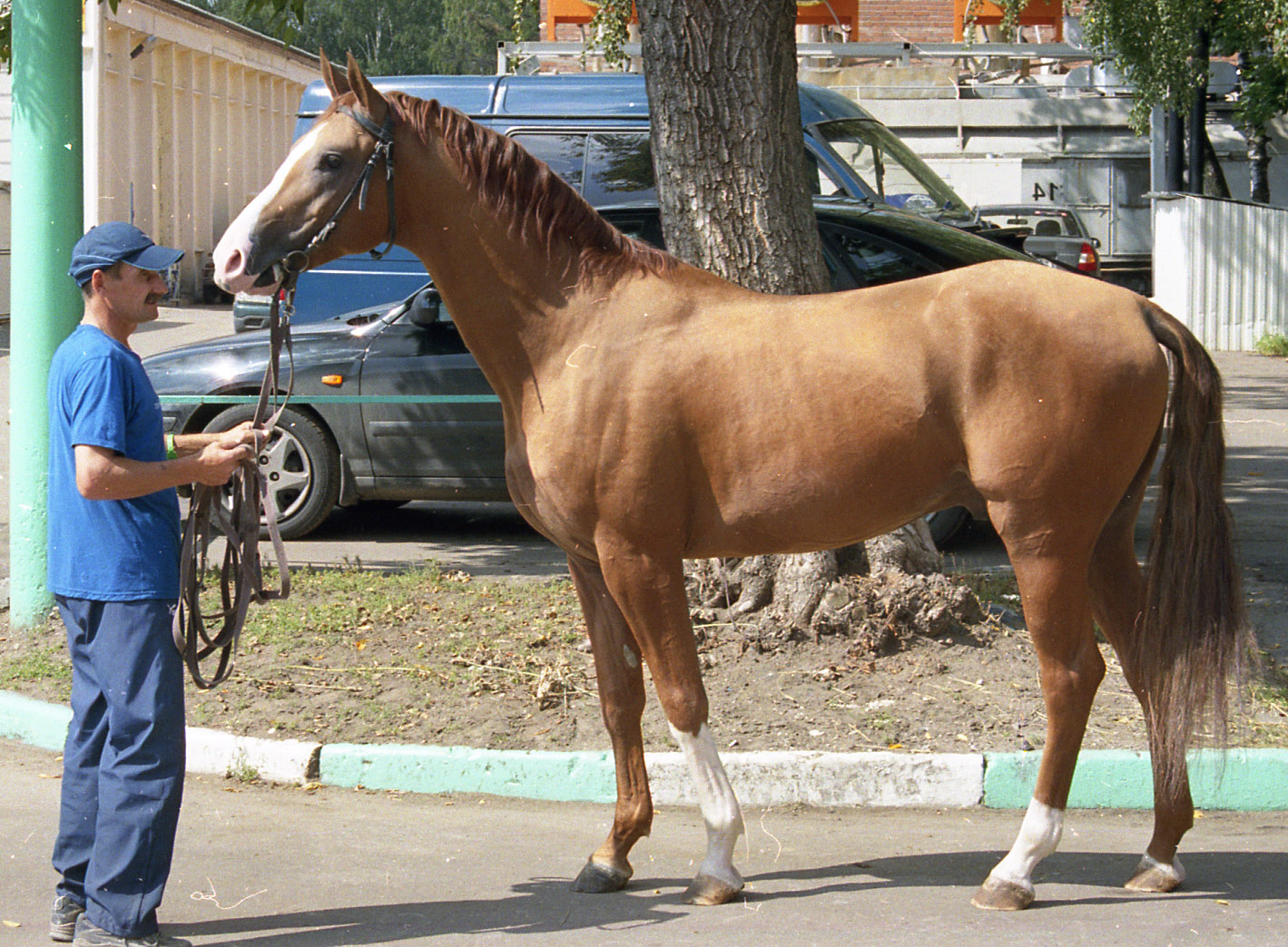 Don stallion